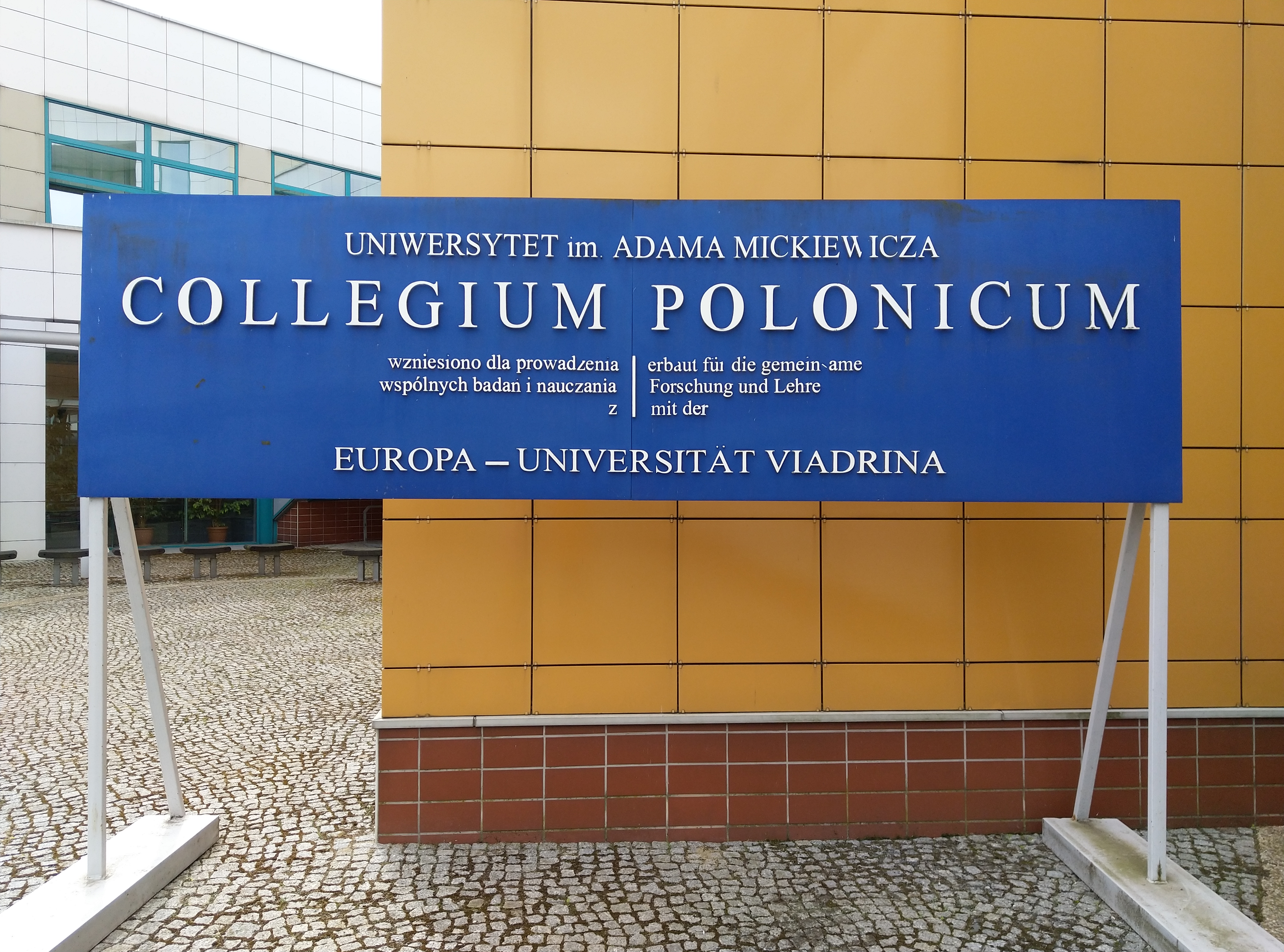 Plaque of Collegium Polonicum in Slubice